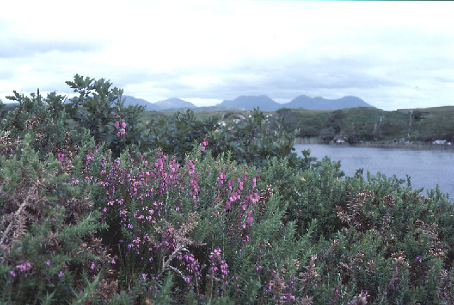 Bell heather (Erica cinerea) and St Dabeoc's heath (Daboecia cantabrica) in bloom — Derrywaking, Connemara (Ireland). Heathland of Ireland, east of Clifden and beyond the Twelve Bens, near a site where it was proposed to build an airport!.